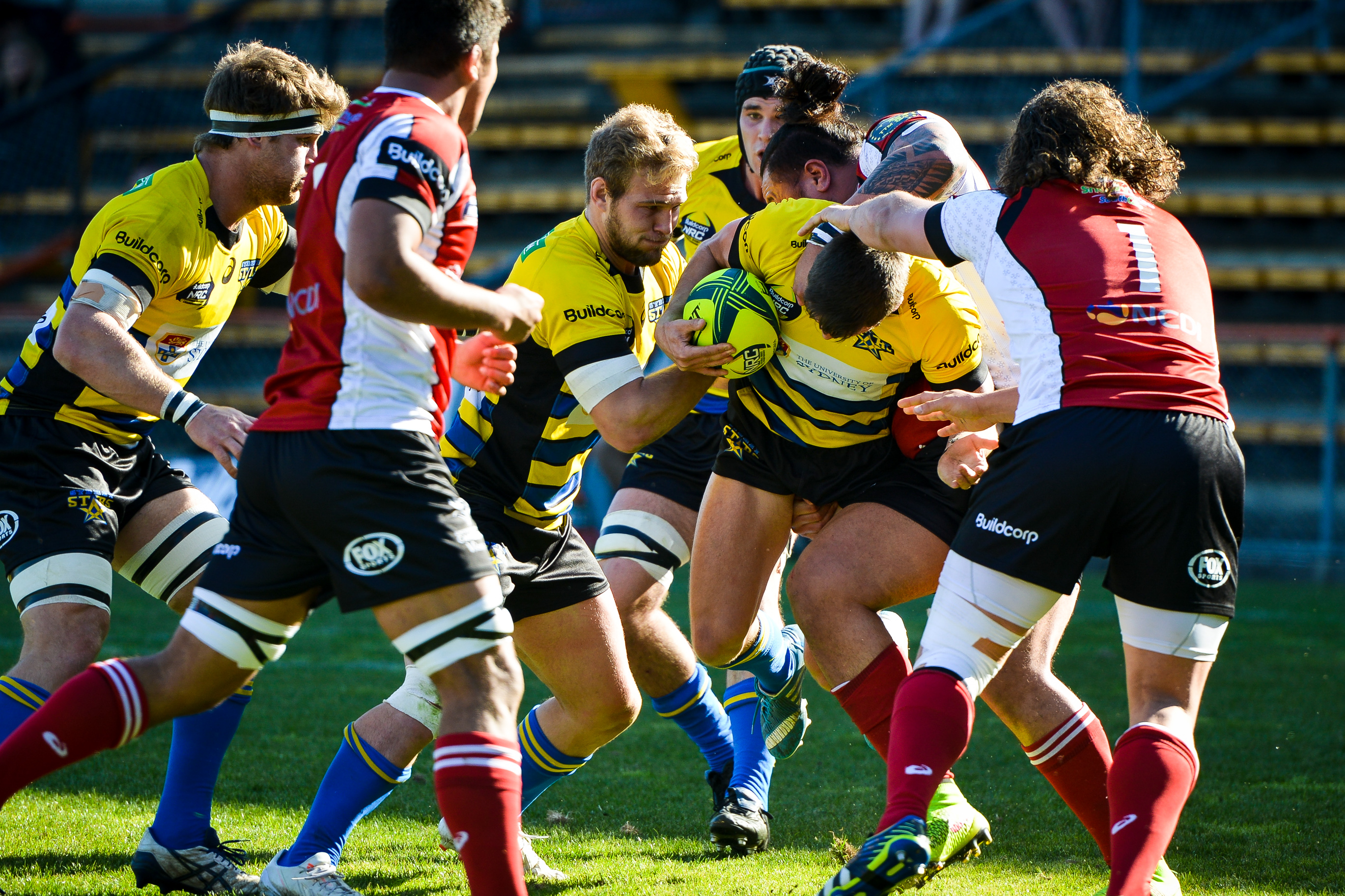 Sydney Stars versus Canberra Vikings NRC Round 5